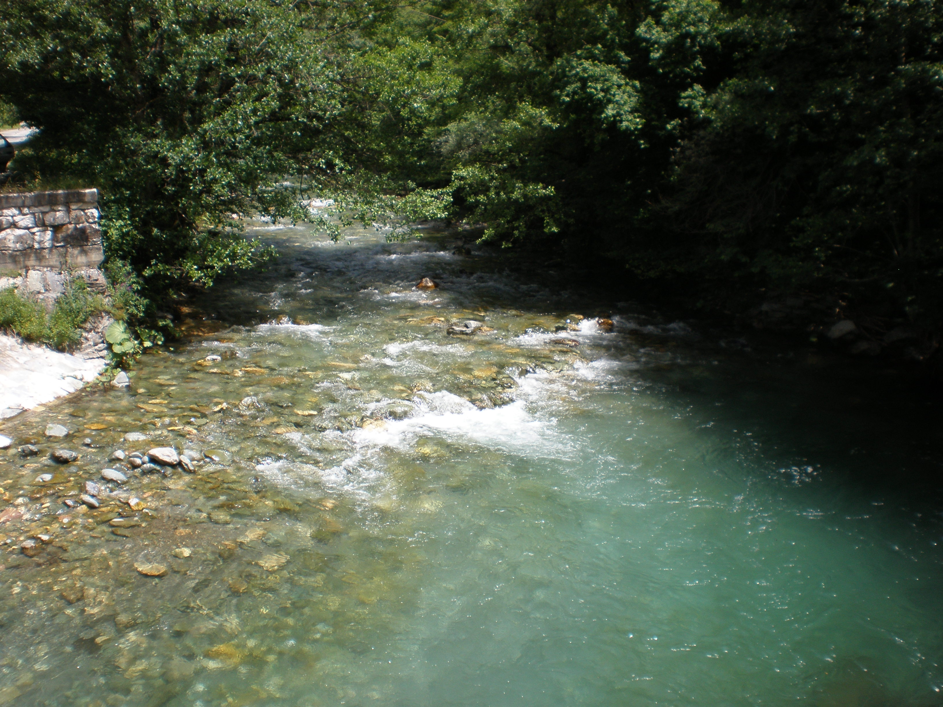 Radika river near village of Volkovija, Macedonia